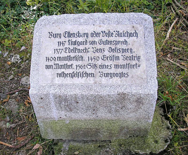 Ettensberg castle ruin (Blaichach, Landkreis Oberallgäu, Bavaria, Germany). Memorial at the courtyard